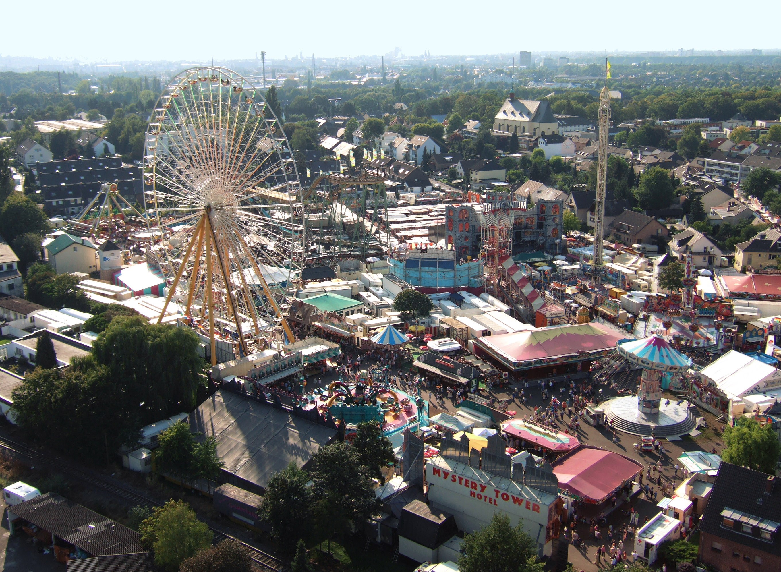 A part of funfair Pützchens Markt in Bonn, Germany.